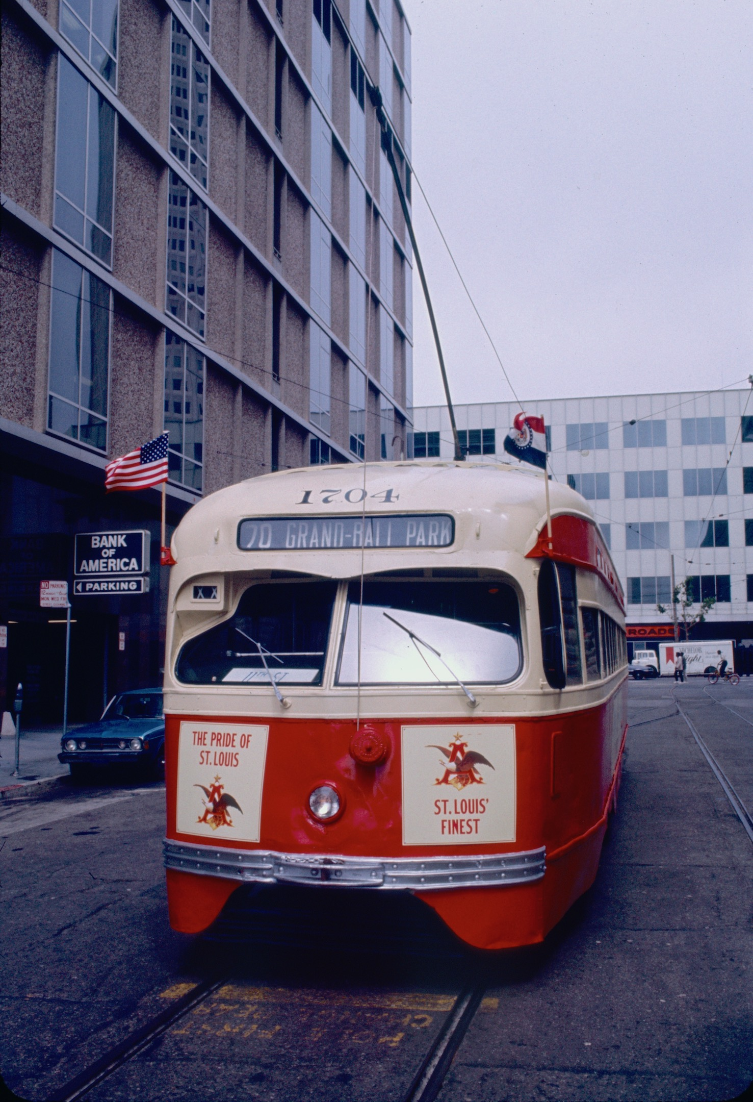 "St. Louis" PCC streetcar 1704 – actually SF Muni car 1128, repainted and renumbered to its original identity from when it operated on the St. Louis streetcar system – laying over in the wye on 11th Street south of Market Street during the first San Francisco Historic Trolley Festival, in 1983. Its rollsign is displaying St. Louis signage (for route 70-Grand to Ball Park). The car's participation in the 1983 festival was sponsored by St. Louis-based Anheuser-Busch, and the "Pride of St. Louis" and "St Louis' Finest" signs on the car's end are Anheuser-Busch advertisements. This is the car's front end, and the car will back out onto Market Street, after which its operator will move to the front again and resume running forwards.